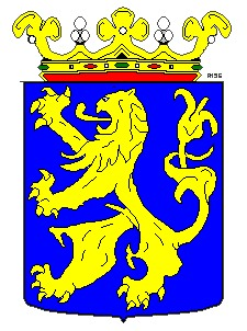 Coat of arms of Leeuwarden, province of Friesland, The Netherlands.